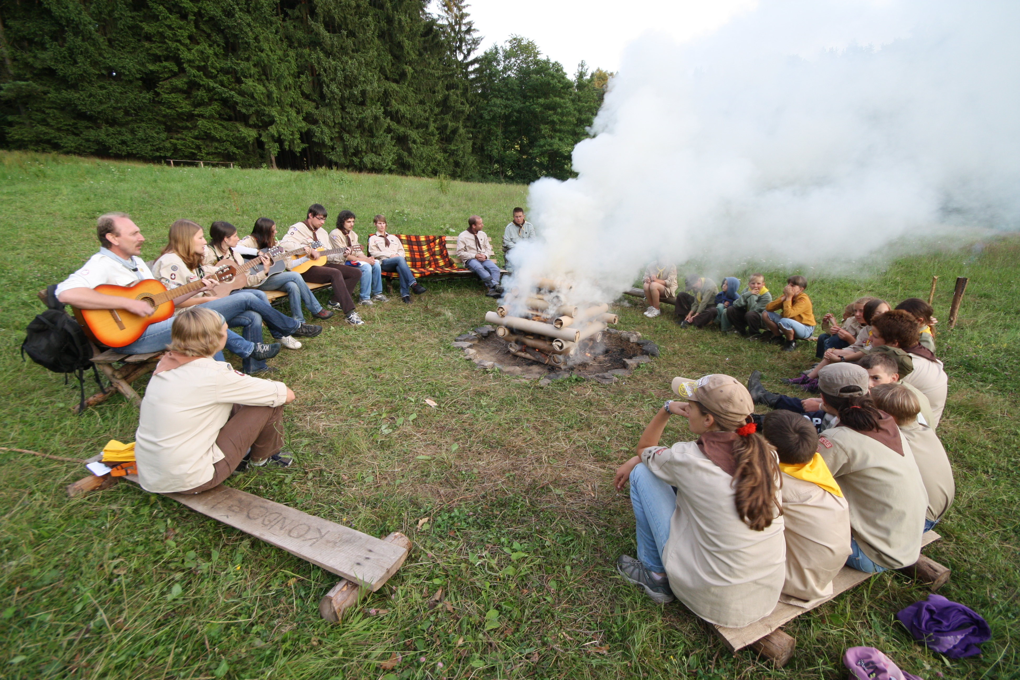 Scouts in uniform by fire.